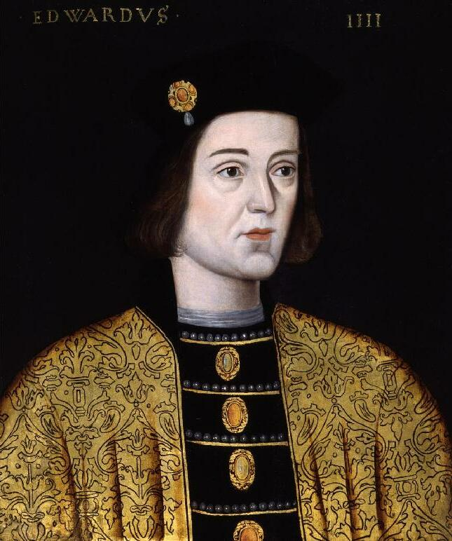 EdwardIVofEngland-Yorkist